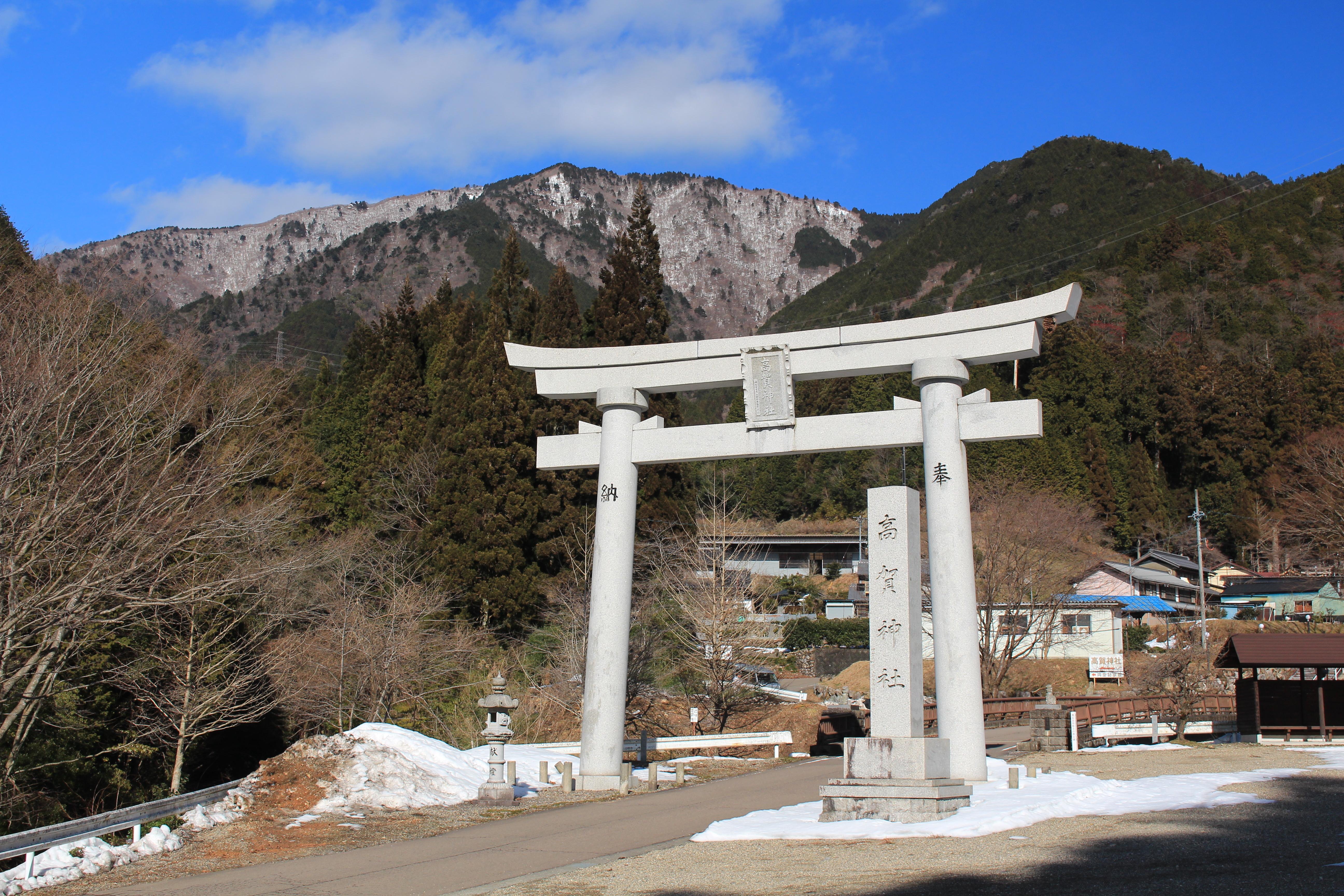 Mount Koga seen from Kouka jinja, in Seki, Gifu prefecture, Japan.